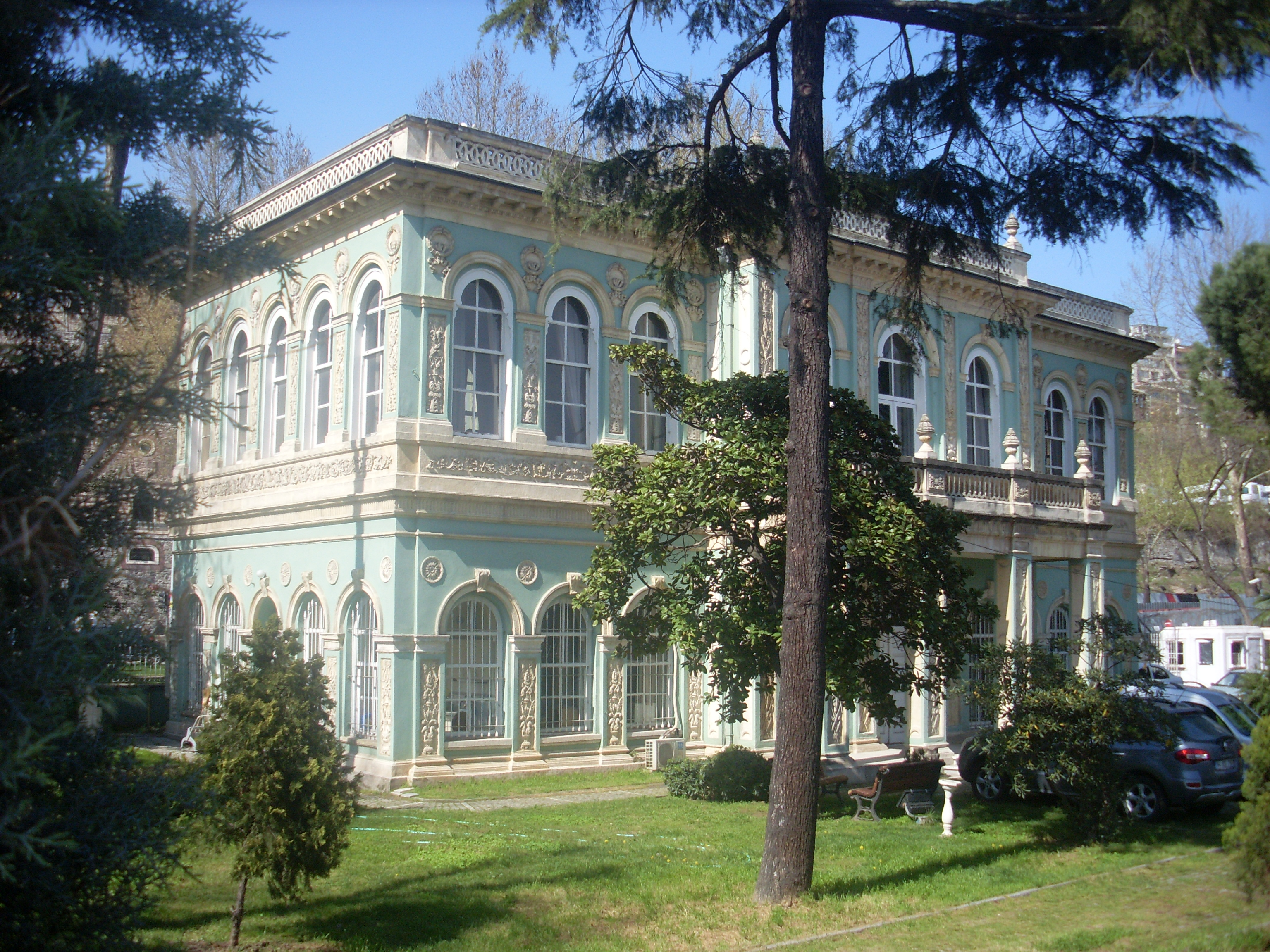 Tophane Kiosk p1